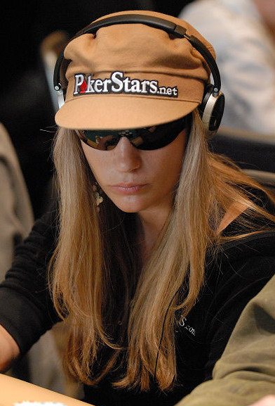 Vanessa Rousso in the WPT Championship at the Bellagio